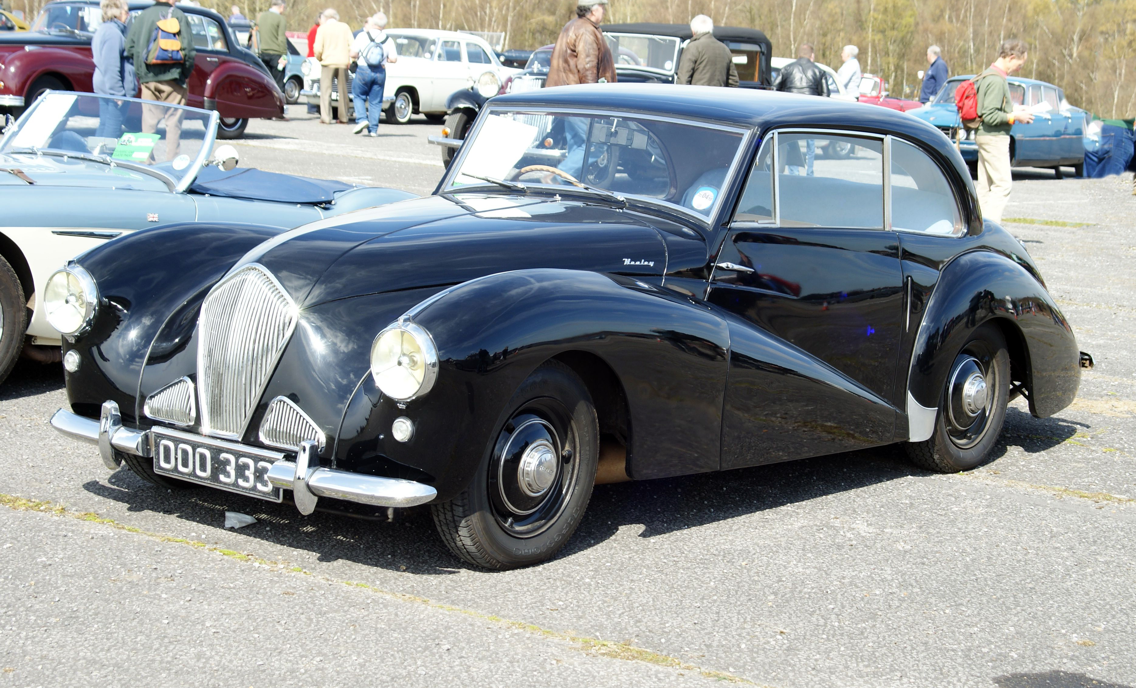 1952 Healey Tickford Saloon; this follow-up to the Healey Elliott could reach 110mph (177km/h) with 2443cc Riley four-cylinder